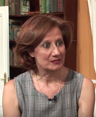 Spanish Actress Esperanza Elipe